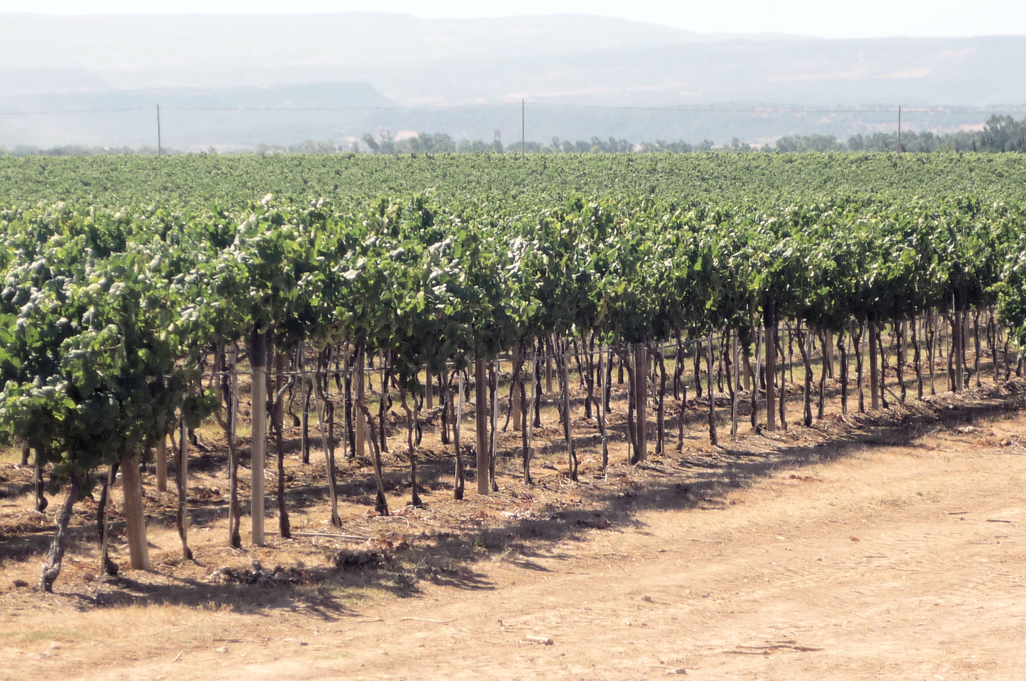 Vineyards of estate Sella&Mosca, at Alghero, Sardinia.